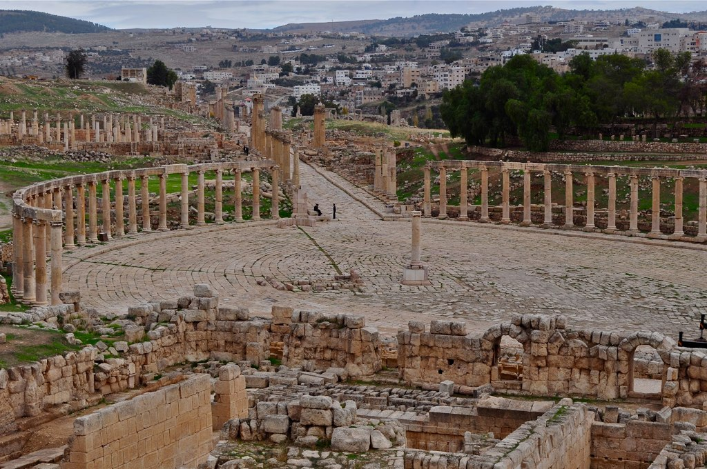 These ruins of the colonnade surrounding the "Oval Plaza" are from Roman times when Jerash was a major city known as "Gerasa".